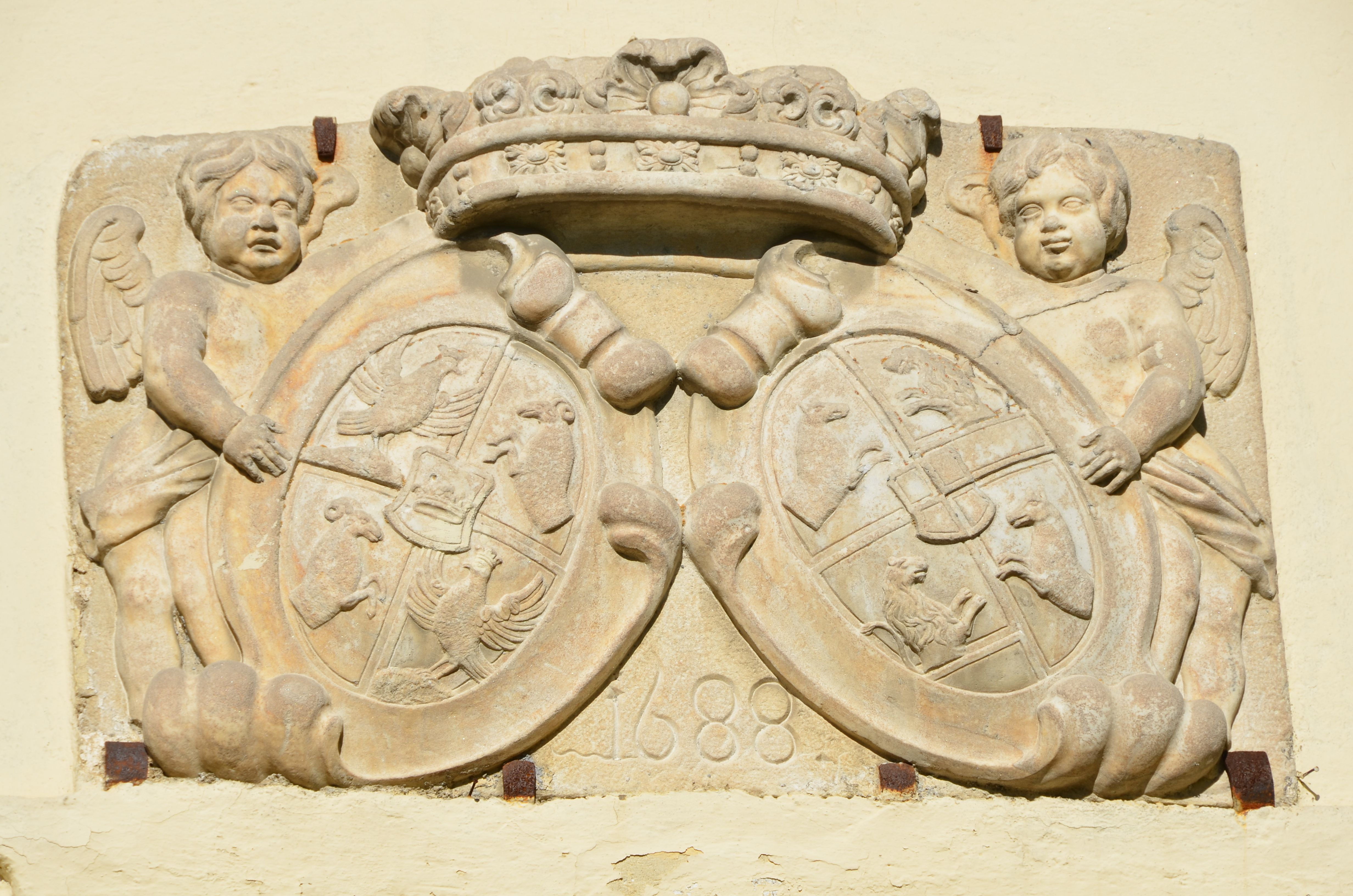 Relief stone of double coats of arms Kronegg-Zinzendorff over the portal of castle Moosburg, market town Moosburg, district Klagenfurt Land, Carinthia, Austria, EU